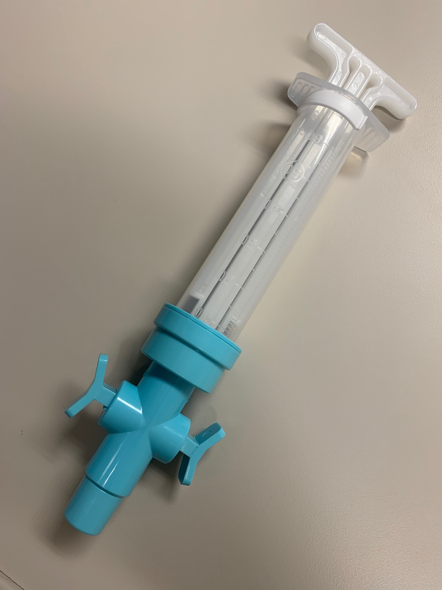 single-use disposable 60 mL double-valve manual vacuum aspirator